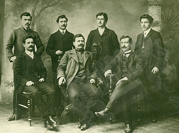 Sitting: Kostadin Samardzhiev, Hristo Chernopeev, Petar Kitanov. Standing: Mirchi Ikonomov, Pando Popmanushev, Mihail Shkartov, Metodi Andreev.